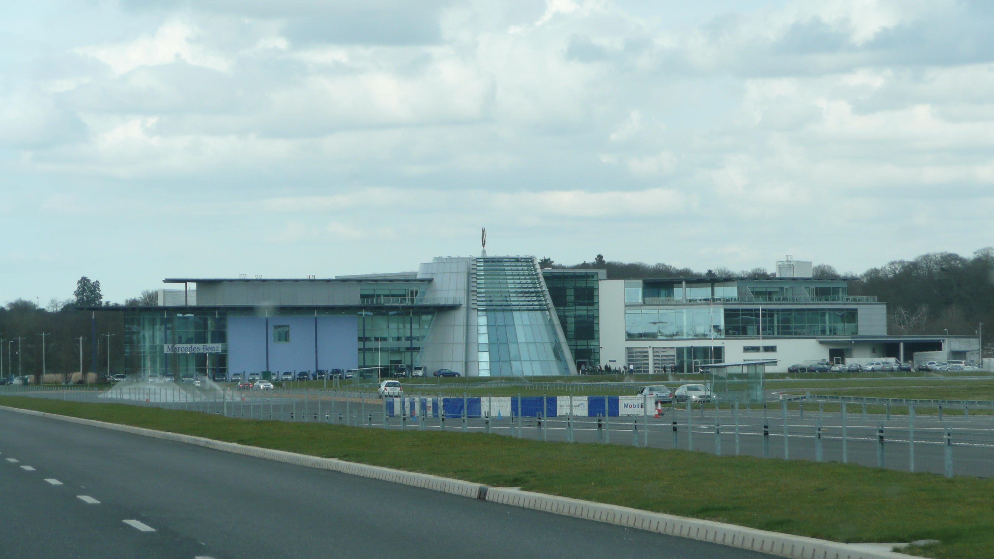 The Mercedes-Benz World visitor attraction in Surrey, England